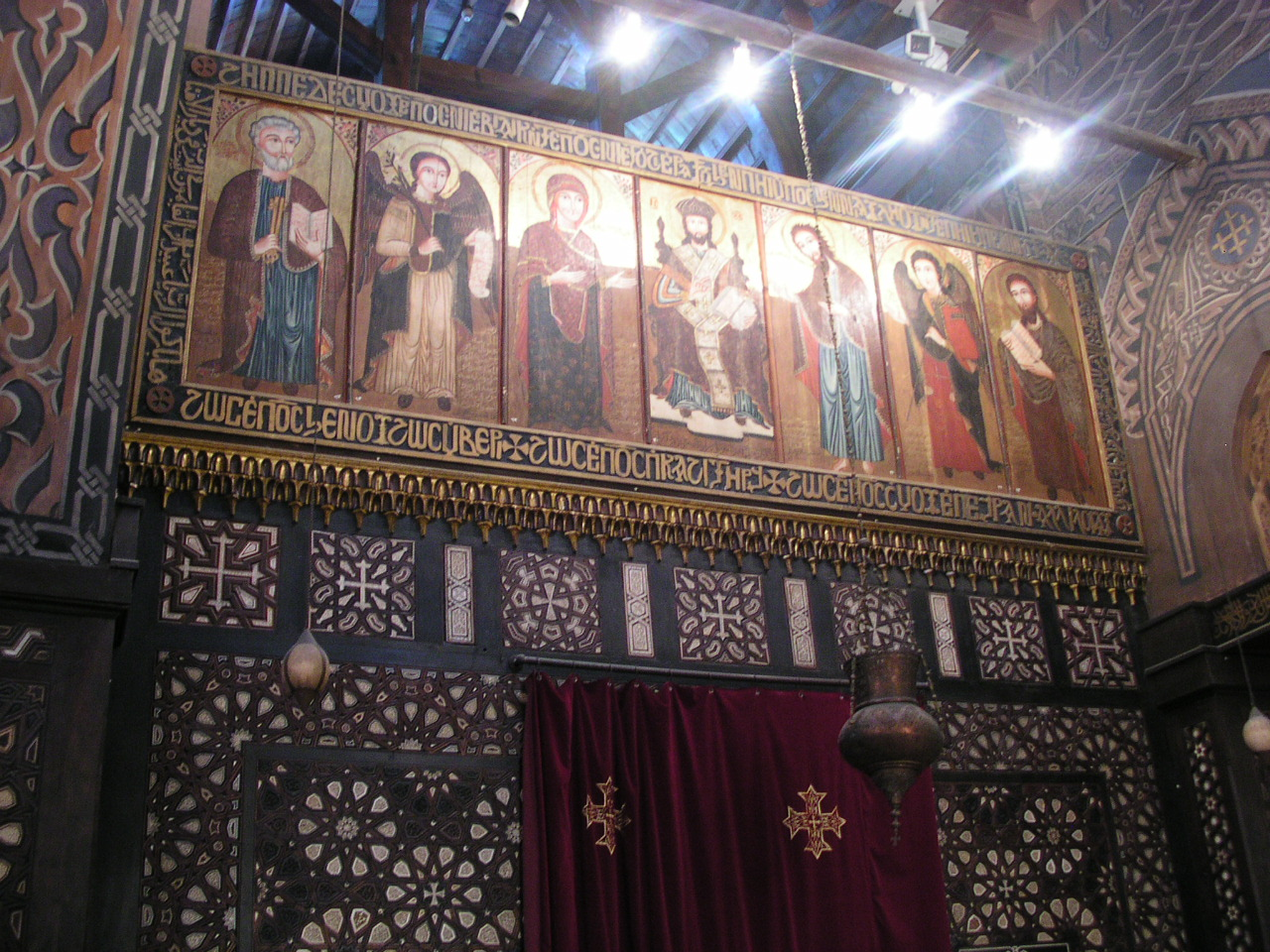 Hanging Church Cairo, Feb 2007